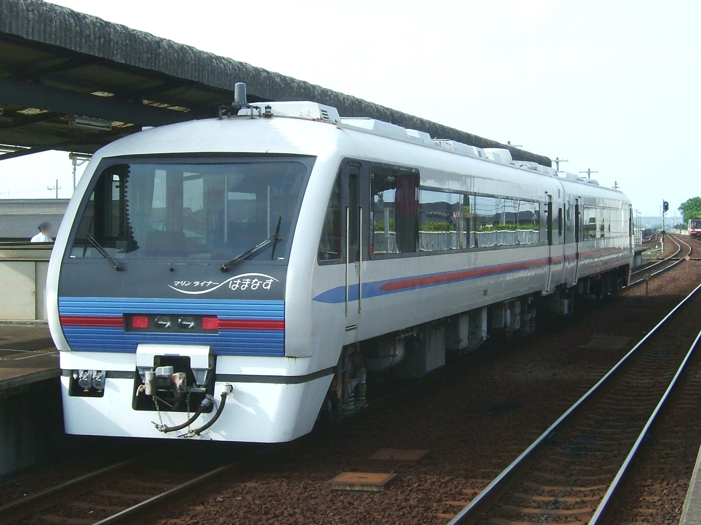 The Kashima Rinkai Railway 7000 series DMU at Ōarai Station